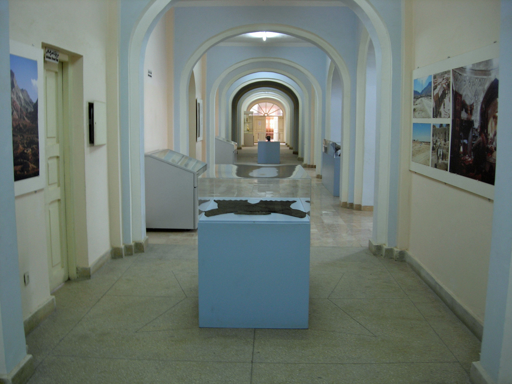 Interior of Kabul Museum